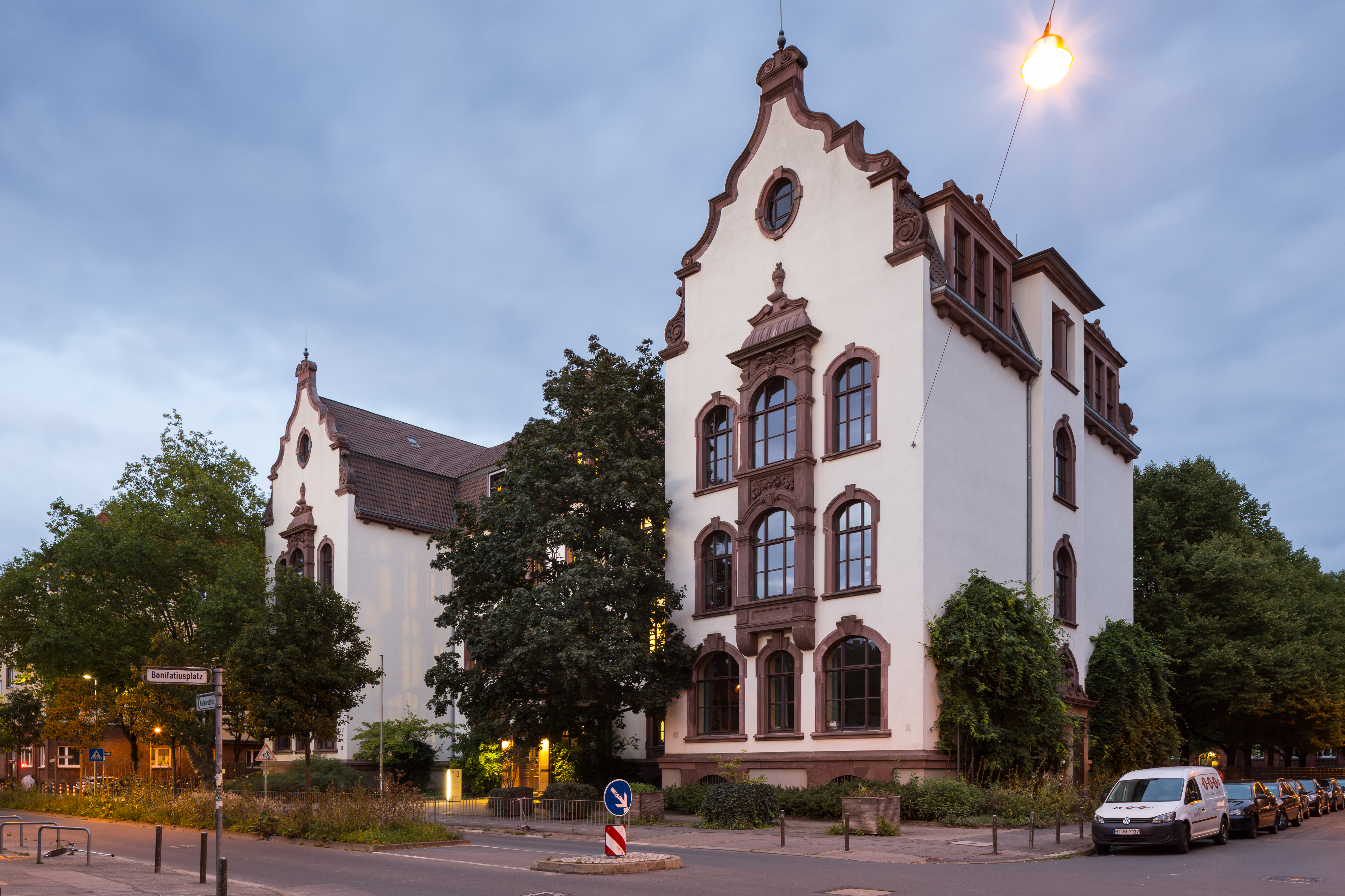 Comeniusschule school located at Bonifatiusplatz square and Kollenrodtstrasse in List quarter of Hannover, Germany.